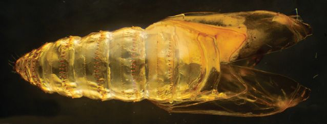 Riculorampha ancyloides, pupal exuvium.